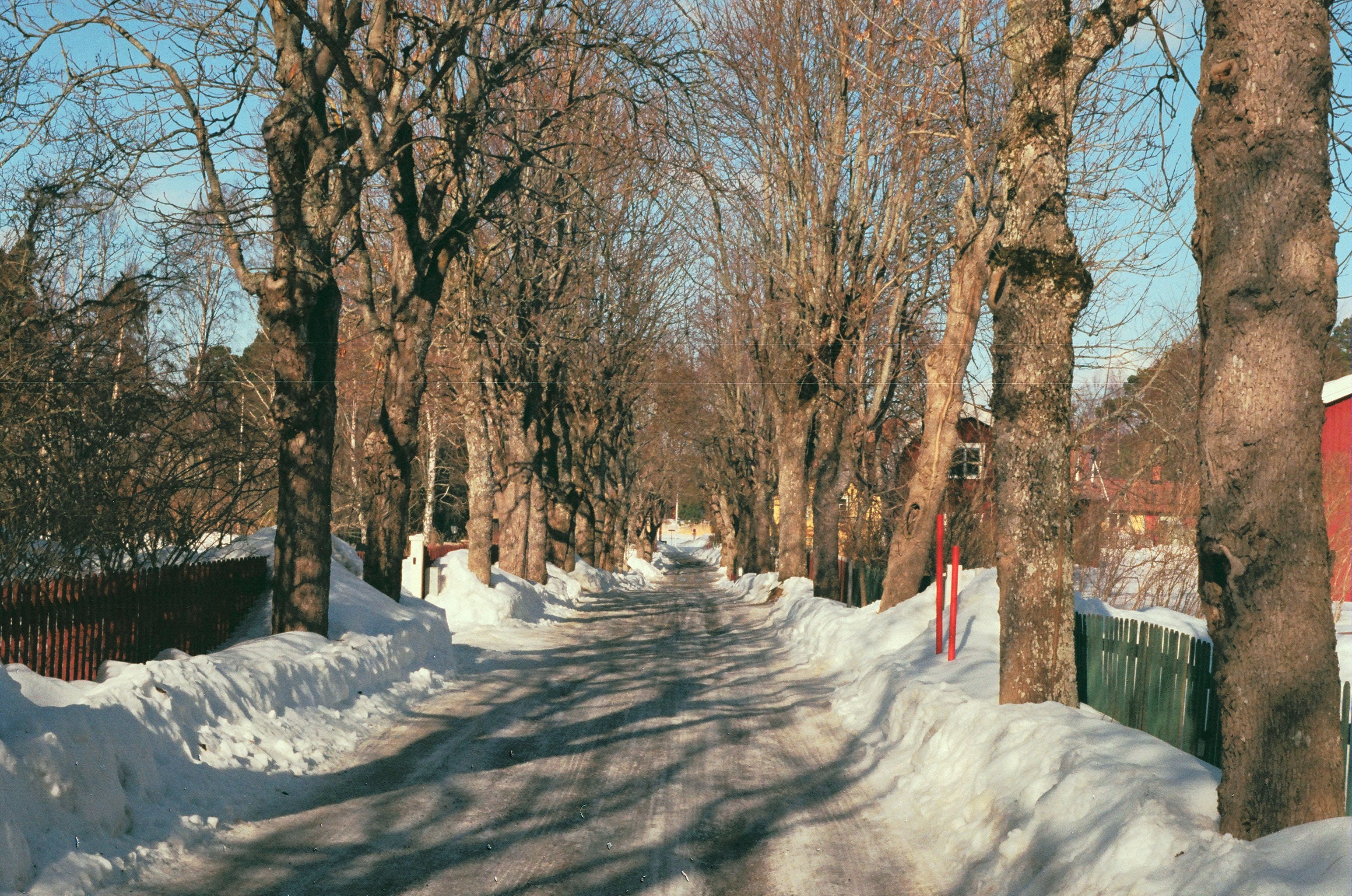 Stavsnäs by